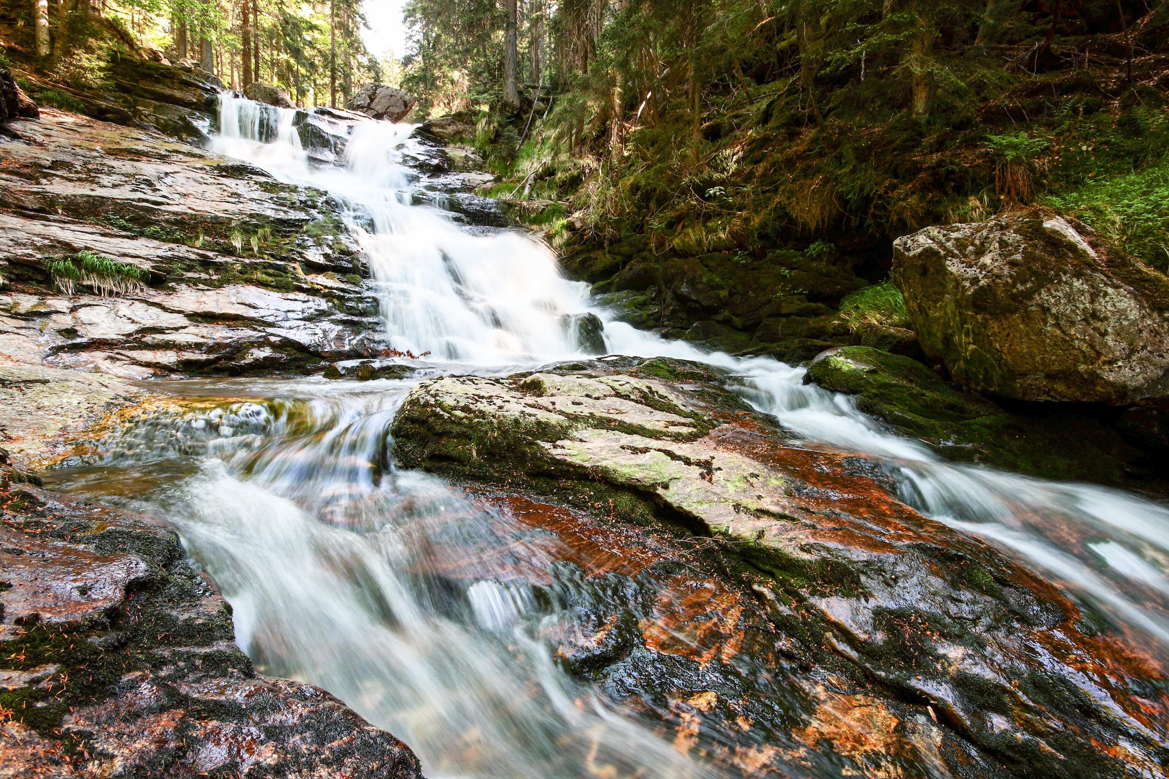 This is the upper part of the first and main part of the Riesloch cascade as you see it if you are approaching from the parking lot.